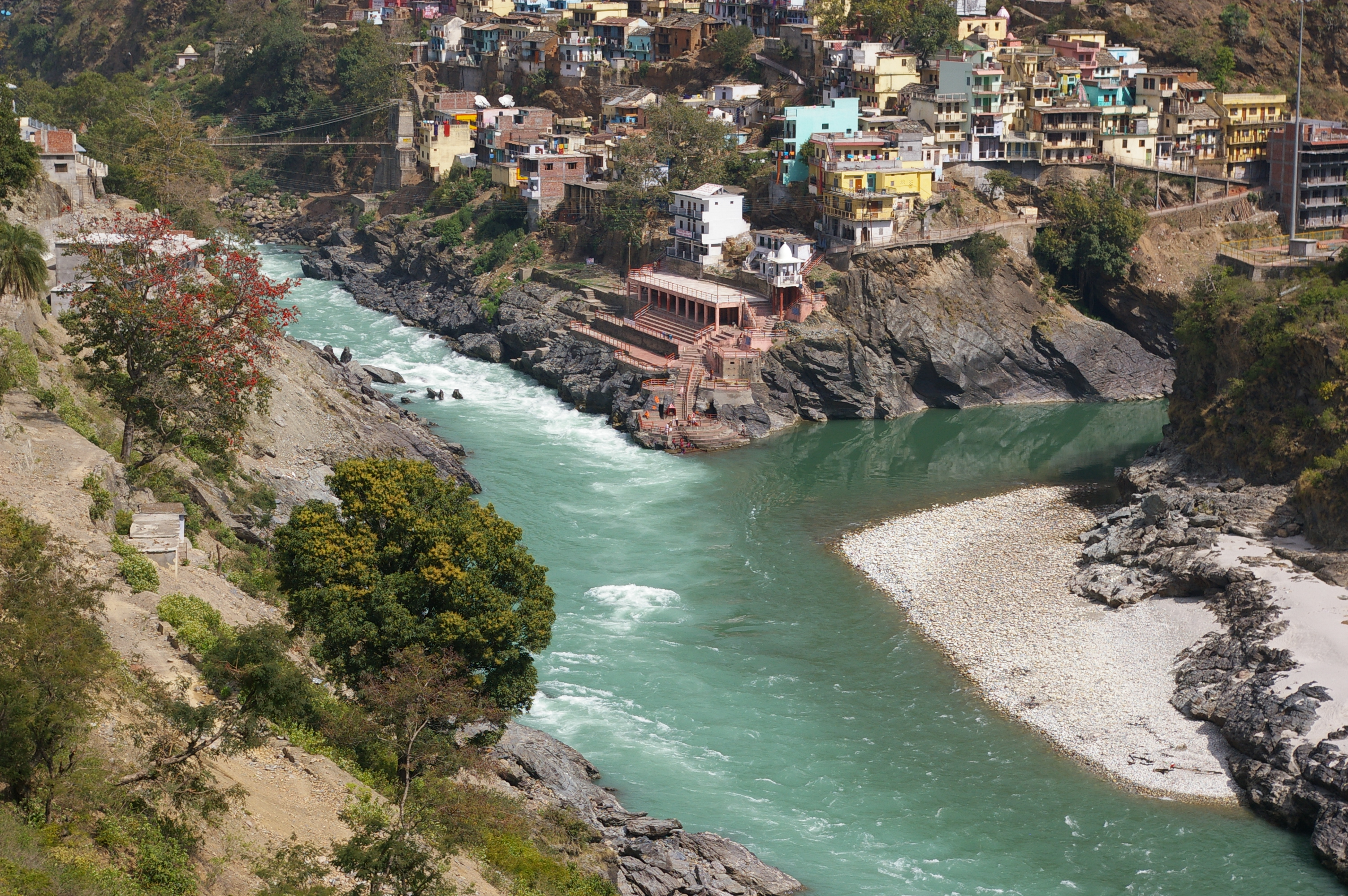 Devprayag - Confluence of Bhagirathi and Alaknanda to form the river Ganga.